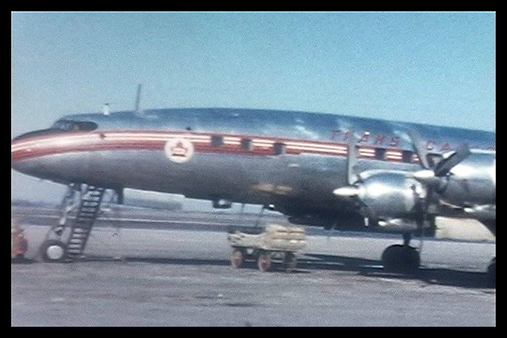 Description: Photo taken in mid-1956 at Dorval Airport, Montreal, Canada. This is a digitized frame from an 8mm colour movie. Photographer: H.G. Rath Photograph owner: Christopher Rath ; H.G. Rath was my father. Copyright: public domain (I, Christopher Rath, release this this image into the public domain).